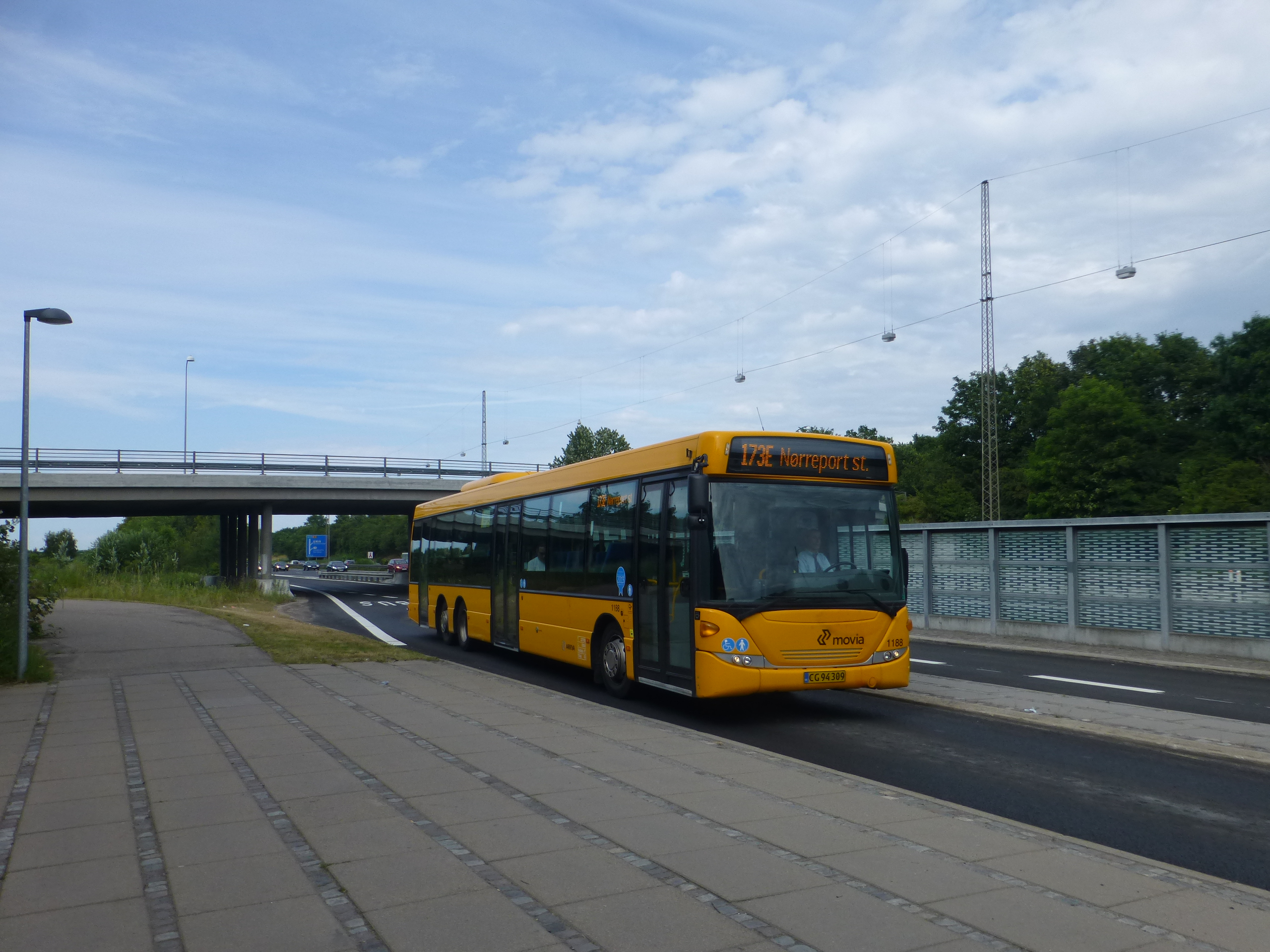 Movia bus line 173E on Helsingørmotorvejen at the bridge for Rævehøjvej north of Copenhagen.